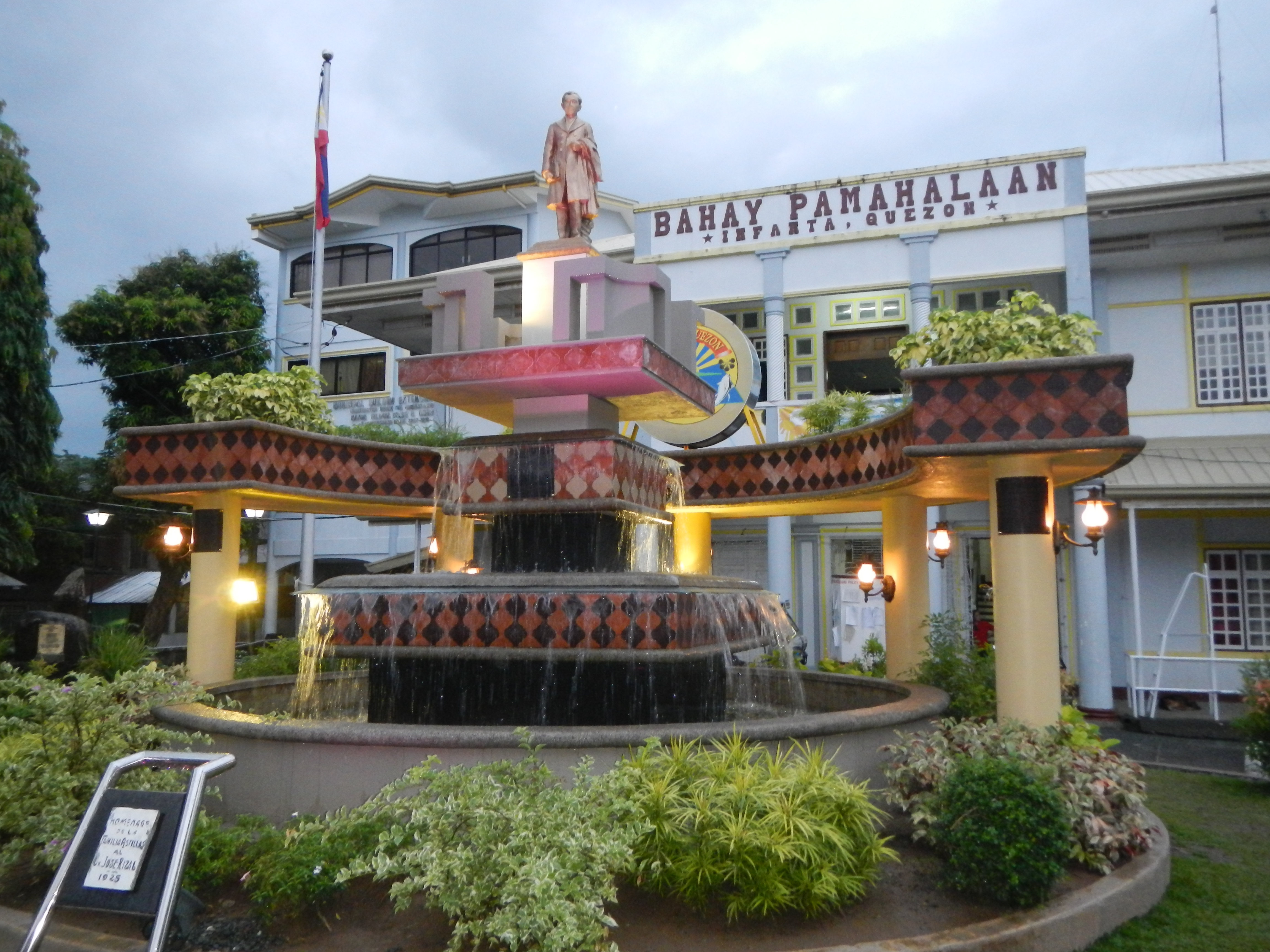 UploadWizard photos ---sunset, dusk, bad weather conditions, (general description) of landmarks, heritage, culture, comprehensive, photography) of ---- Infanta, Quezon[1] (is a first class municipality in the province of Quezon,[2] Philippines, 2007 census, it has a population of 60,346, has a land area of 130.1 km², representing 1.5% of the area of Quezon. the largest lambanog manufacturer in the province of Quezon; Infanta town fiesta is celebrated every April 25) - Infanta Municipal Building[3] Plaridel St., Coordinates: 14°44'47"N 121°38'56"E, Rural Bank of Infanta, Inc., Municipal Health Office, Birthing Home building - beside or near the --- WWII Veterans Memorial Shrine erected in 1982, Infanta Social Center grandstand inside Covered Court, Basketball Court, by Gov. Raffy F. Nantes, NyogNyugan Festival Celeberation of the Tree of Life Agr-Tourism Exposition, 1925 Marker of Homage to Dr. Jose P. Rizal Monument, by Familia Astillas, Infanta Municipal Hall and Police station, municipal offices, in Centro, downtown, Town Proper of ---- Infanta, Quezon[4] [5] [6] Land Area: 130.1 km² ZIP Code: 4336 Coordinates: 14°43'1"N 121°39'14"E Website.